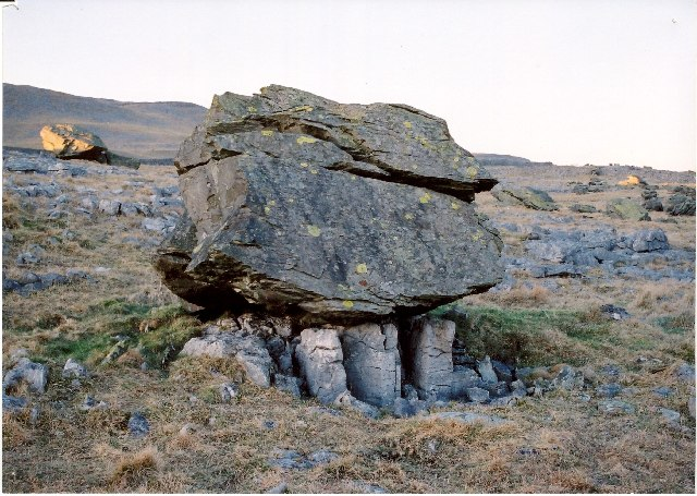 The Norber erratics. The 'erratics' are boulders dropped by passing glaciers. They lie on a bedrock of limestone which has weathered down through the action of rainwater dissolving the rock - except below the boulders where the rock is protected.